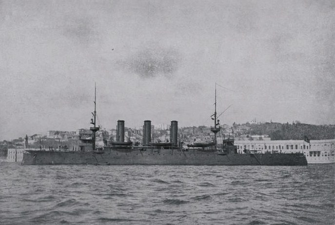 Ottoman cruiser Hamidiye